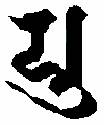 This image was written by Enthousiasme in August 15,2006. Cette photo a été écrit par Enthousiasme en aôut 15,2006. このイメージはEnthousiasmeによって2006年8月15日に書かれました。